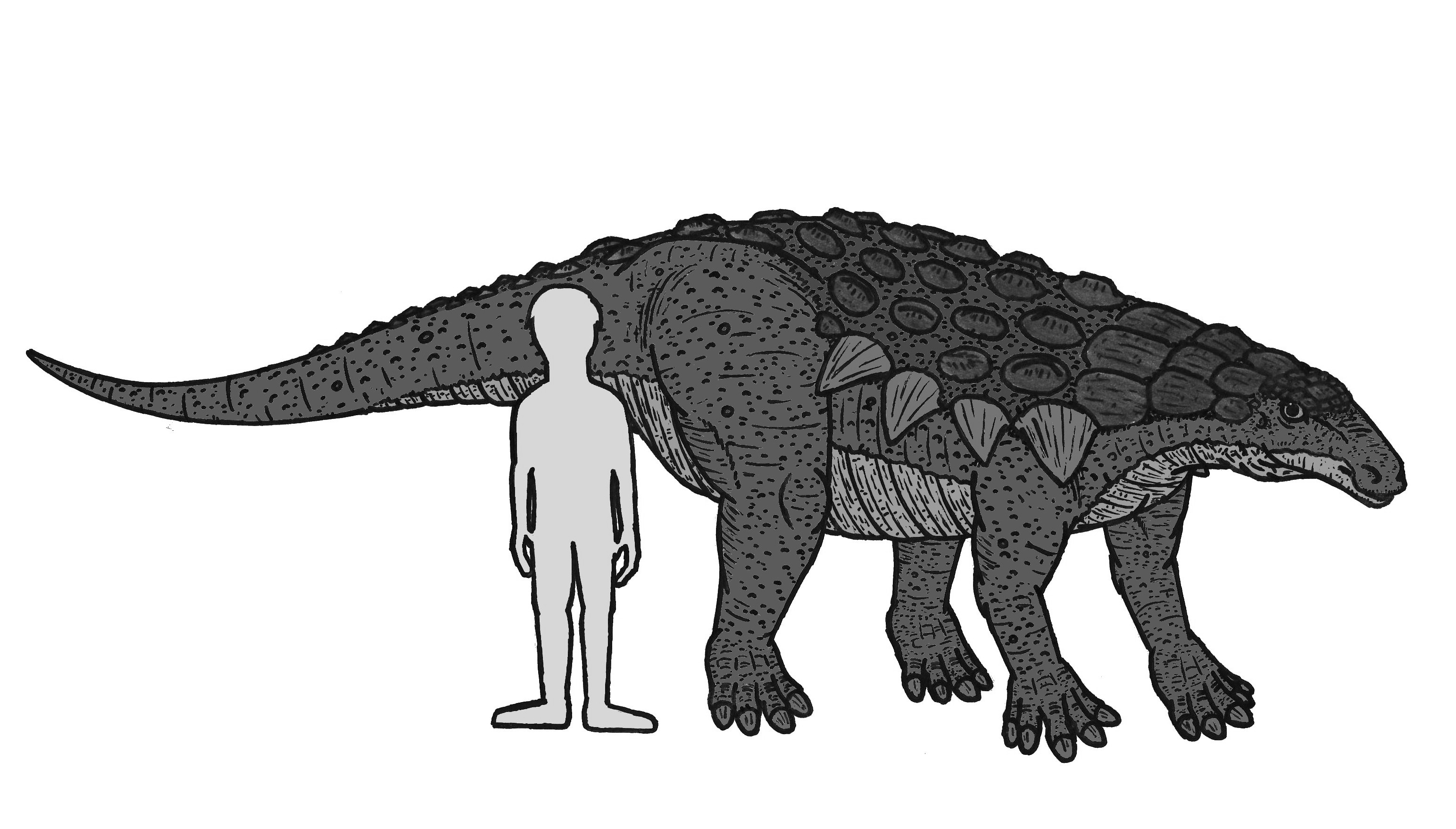 Edmontonia was a nodosaurid, a type of armored herbivorous dinosaur, belonging to ankylosauria. It lived about 70 milj. years ago in Edmonton, Canada.